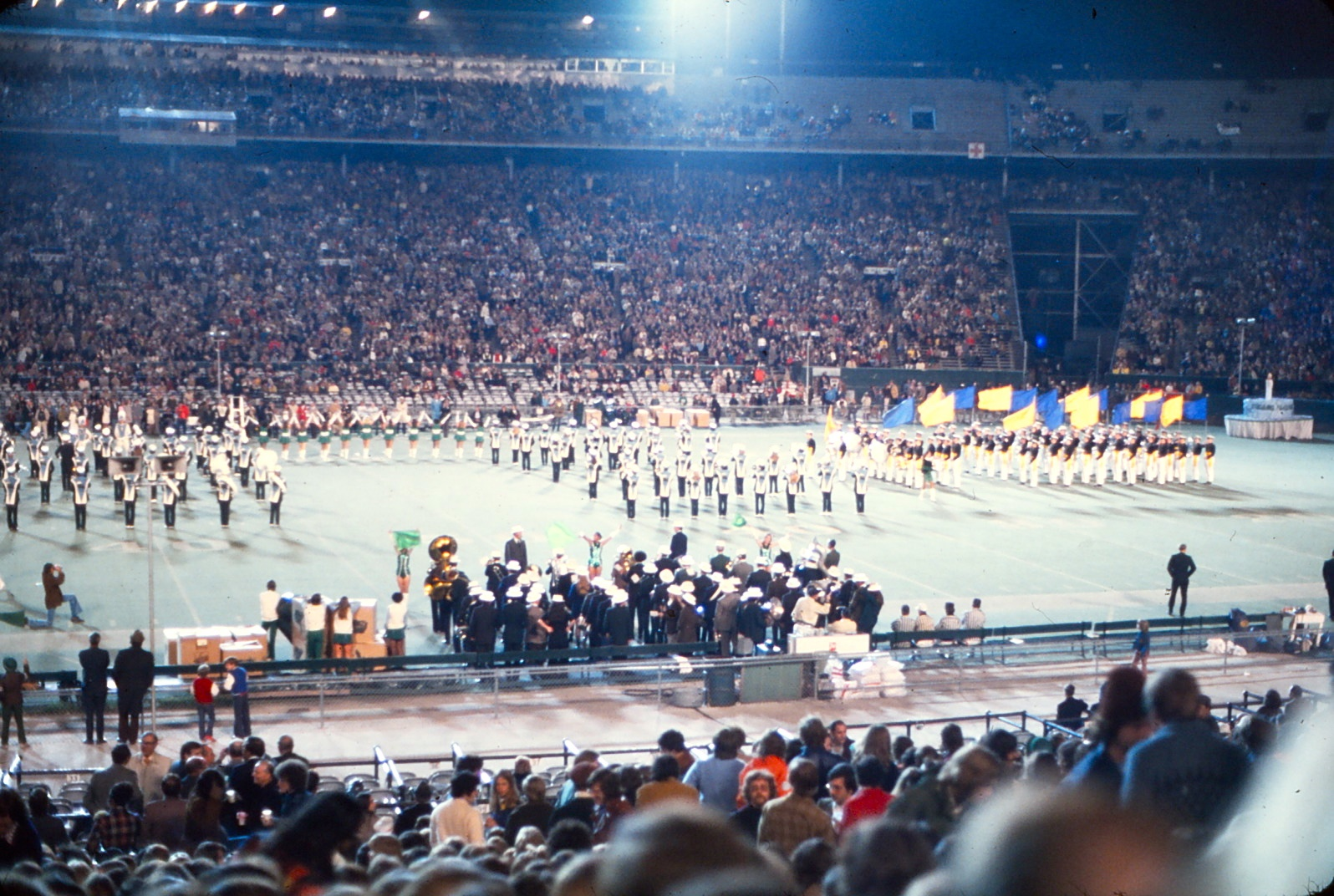 Tulane Stadium, New Orleans - Navy at Tulane - November 1973